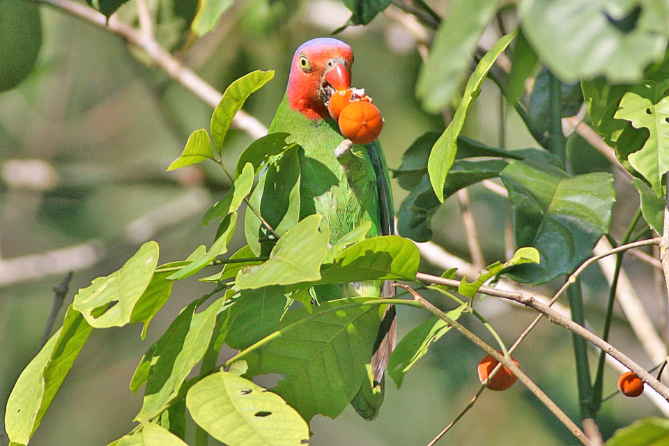 Red-cheeked Parrot (Geoffroyus geoffroyi) at Flores, Indonesia